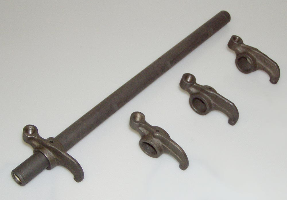 Rockerarm of automobile motor.